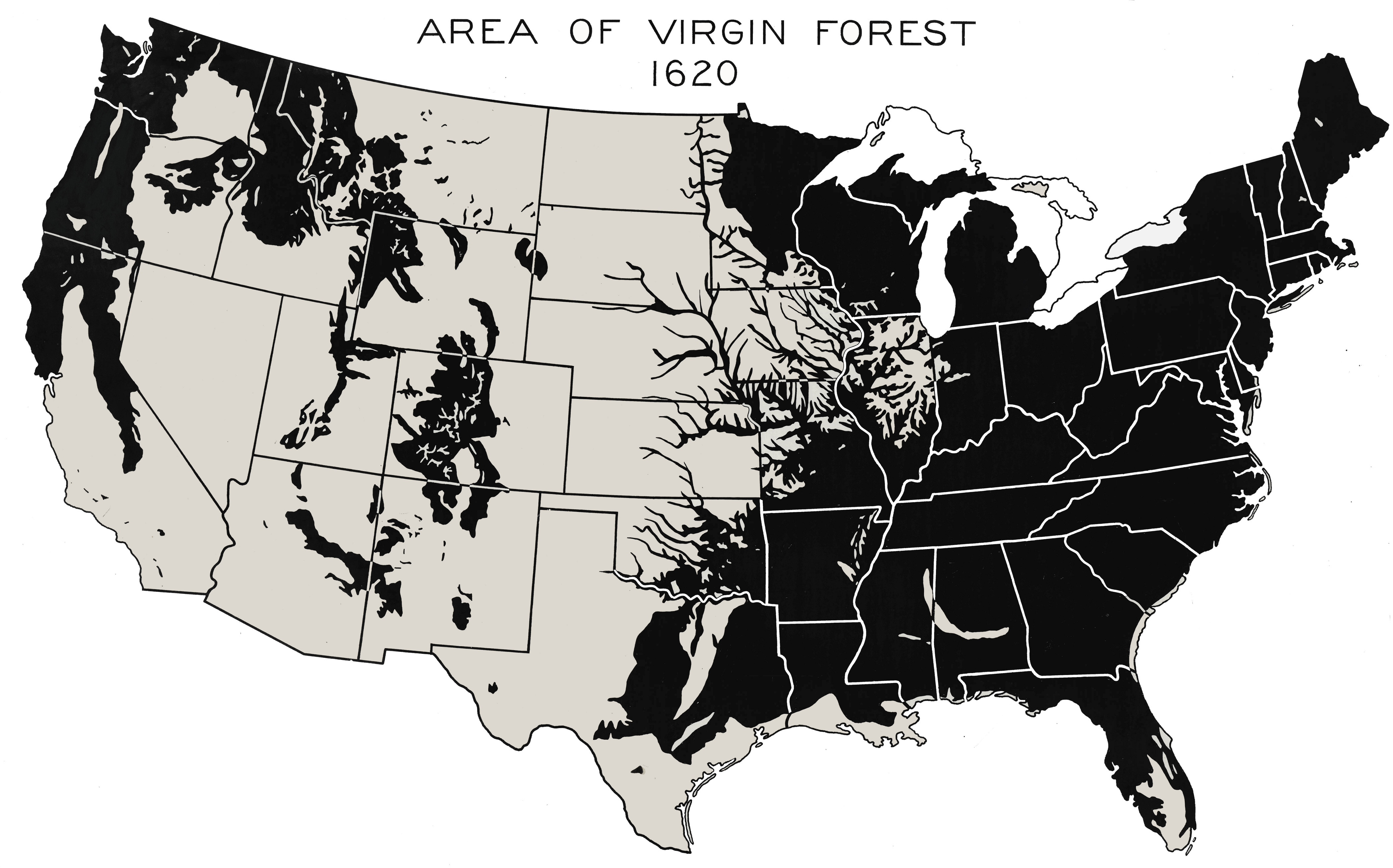 Forests never harvested by European settlers or their descendants, 1620.